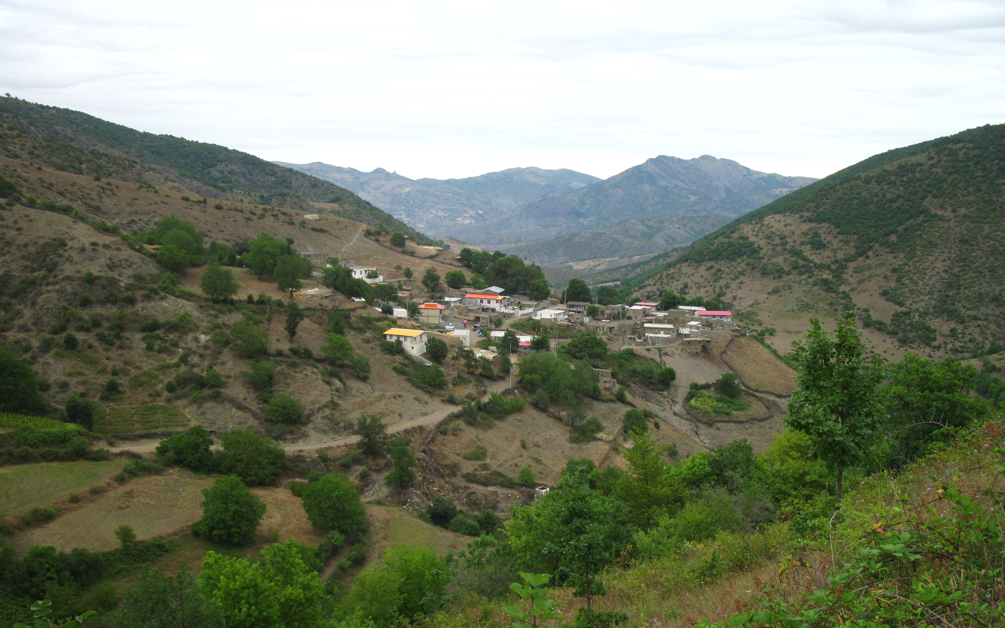 This is a photo of Abbasabad village taken for Abbasabad, Khoda Afarin wikipage.